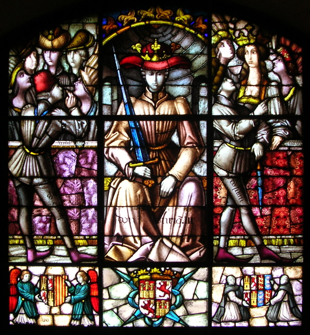 Stained glass in Gallery Hall of Alcázar of Segovia. It depicts King Henry III of Castile and his family. Located in Segovia, Spain. Author : Carlos Muñoz de Pablos (Segovia)